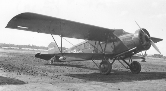 Catalog #: 00062657 Manufacturer: Buhl Designation: CA-6 Official Nickname: Standard Airsedan Notes: Repository: San Diego Air and Space Museum Archive